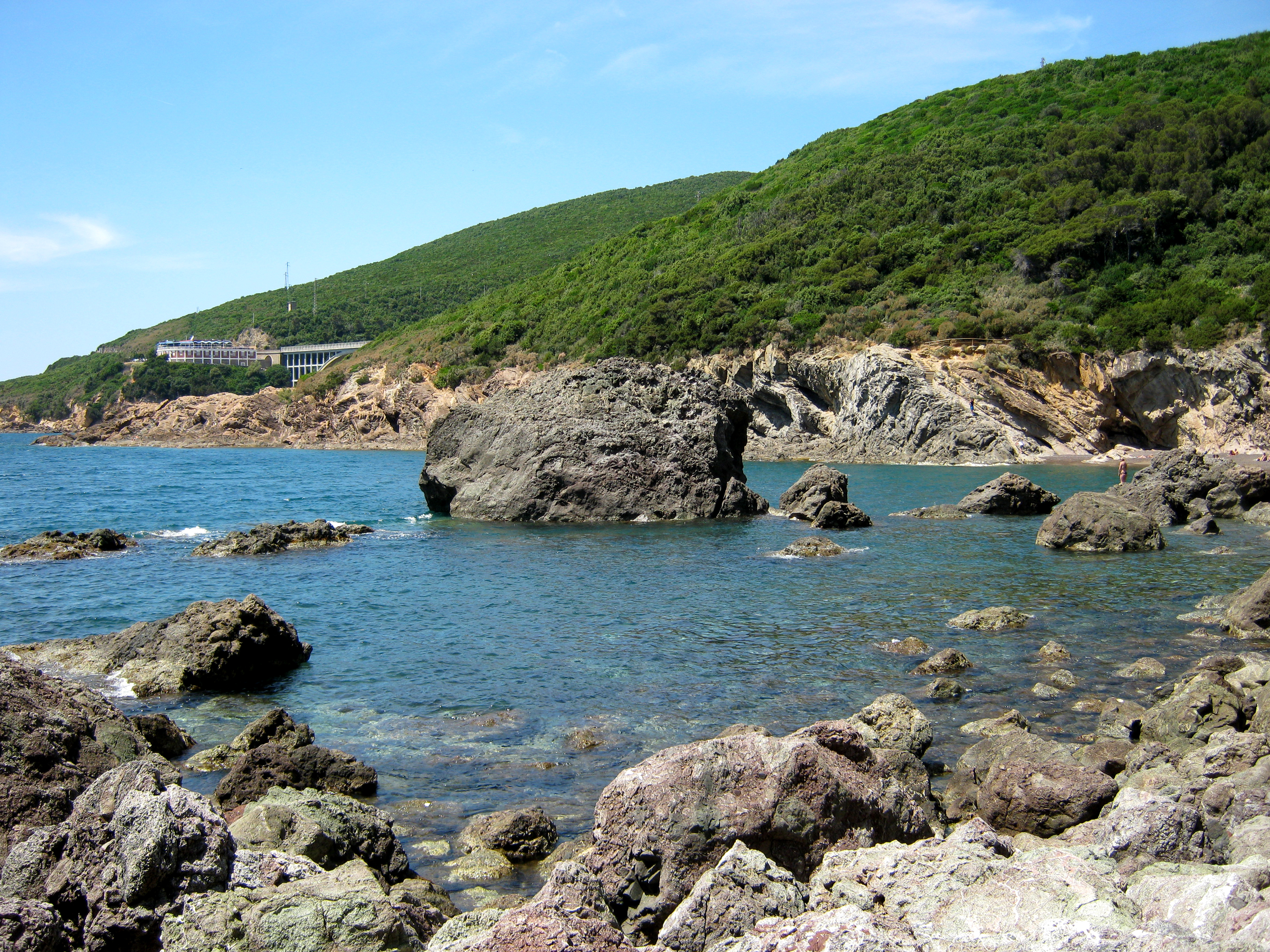 Cala del Leone as seen by south in Leghorn (Livorno)